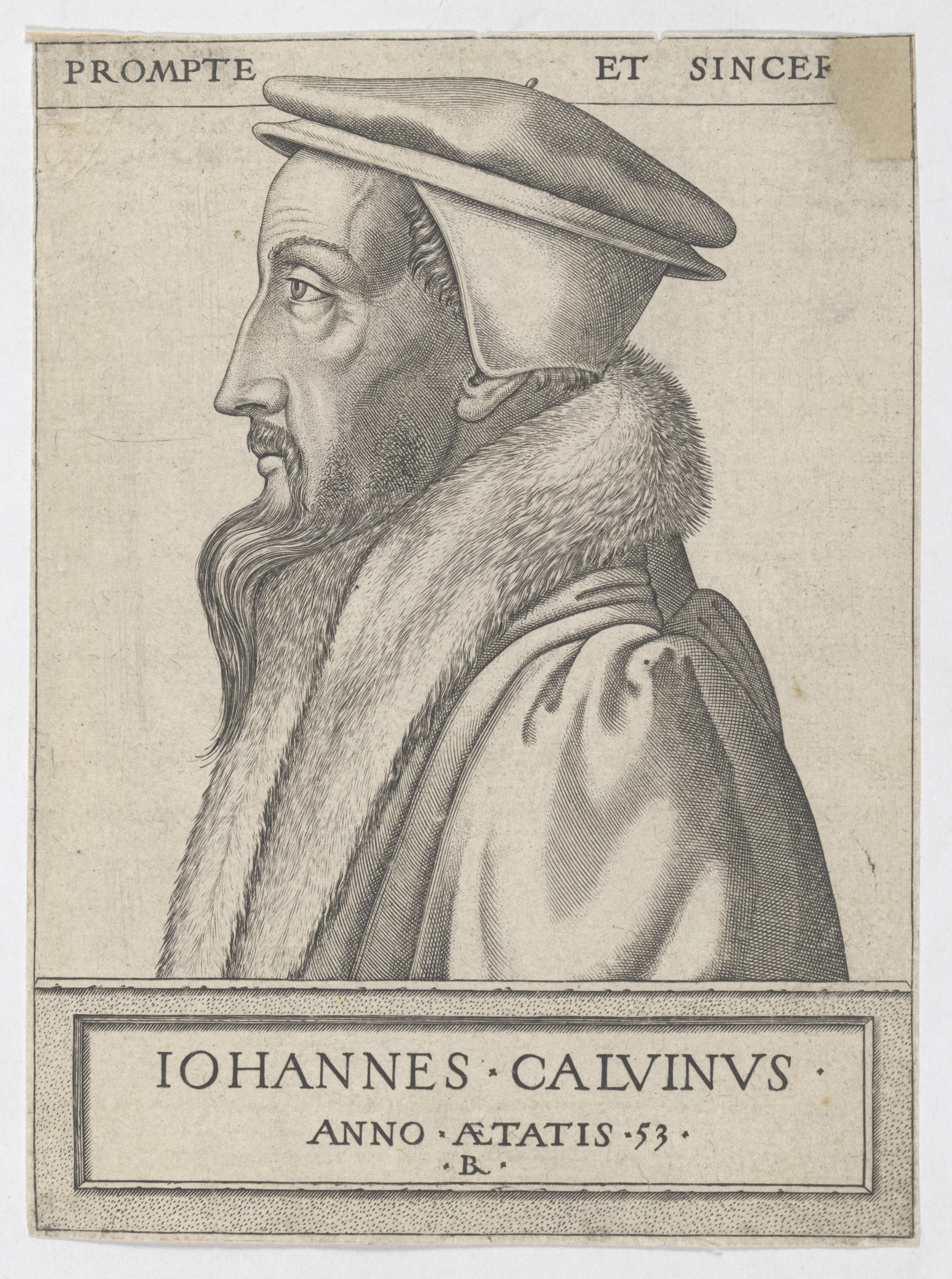 Jean Calvin at fifty-three years old (